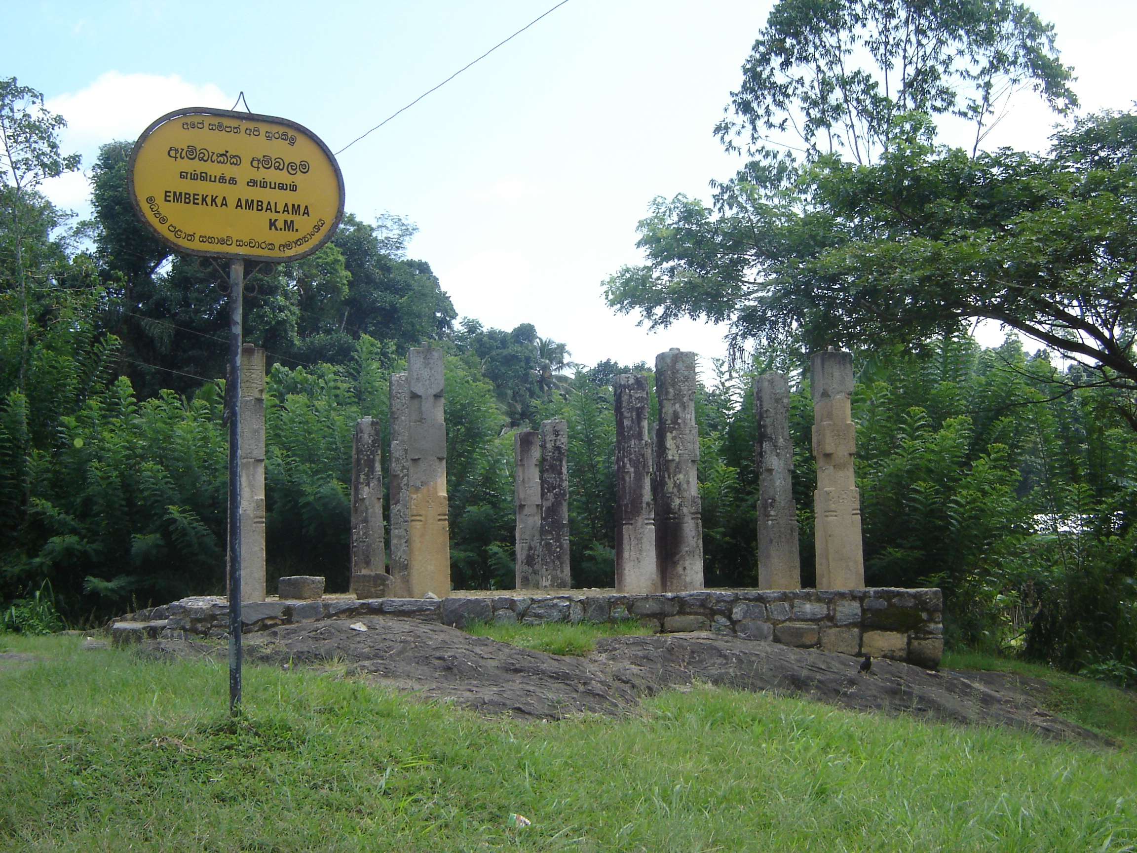 Ruins of Embekka Ambalama nearby the Devalaya. Shot by Dhammika Siripala on 03 July 2008.